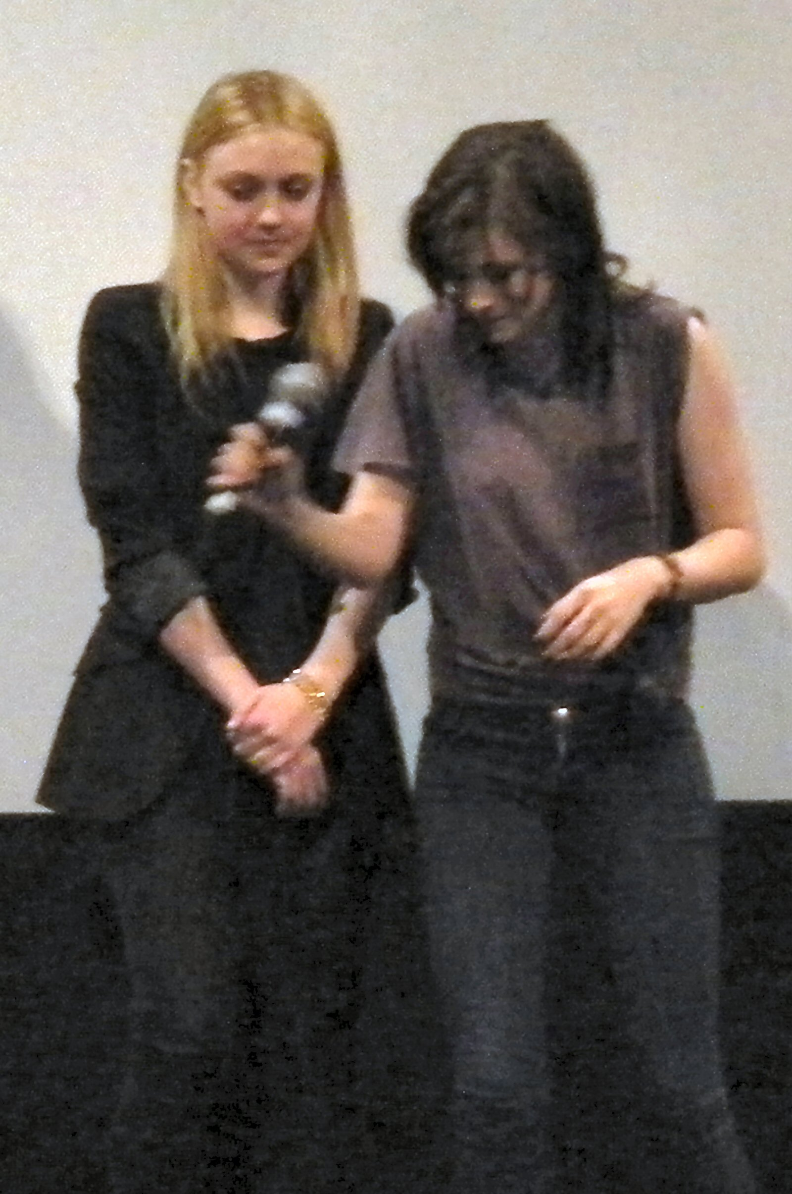 At SXSW 2010 screening of "The Runaways"